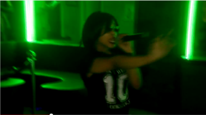 Chastain Performance @ Sledge Lounge